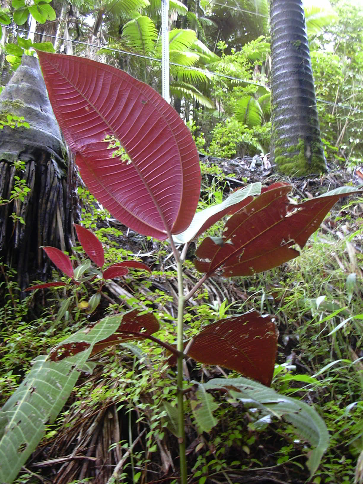 Miconia calvescens (habit). Location: Hawaii, Hilo